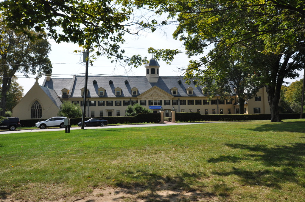 Middlebury Center Historic District, Middlebury, Connecticut. Westover School main building.